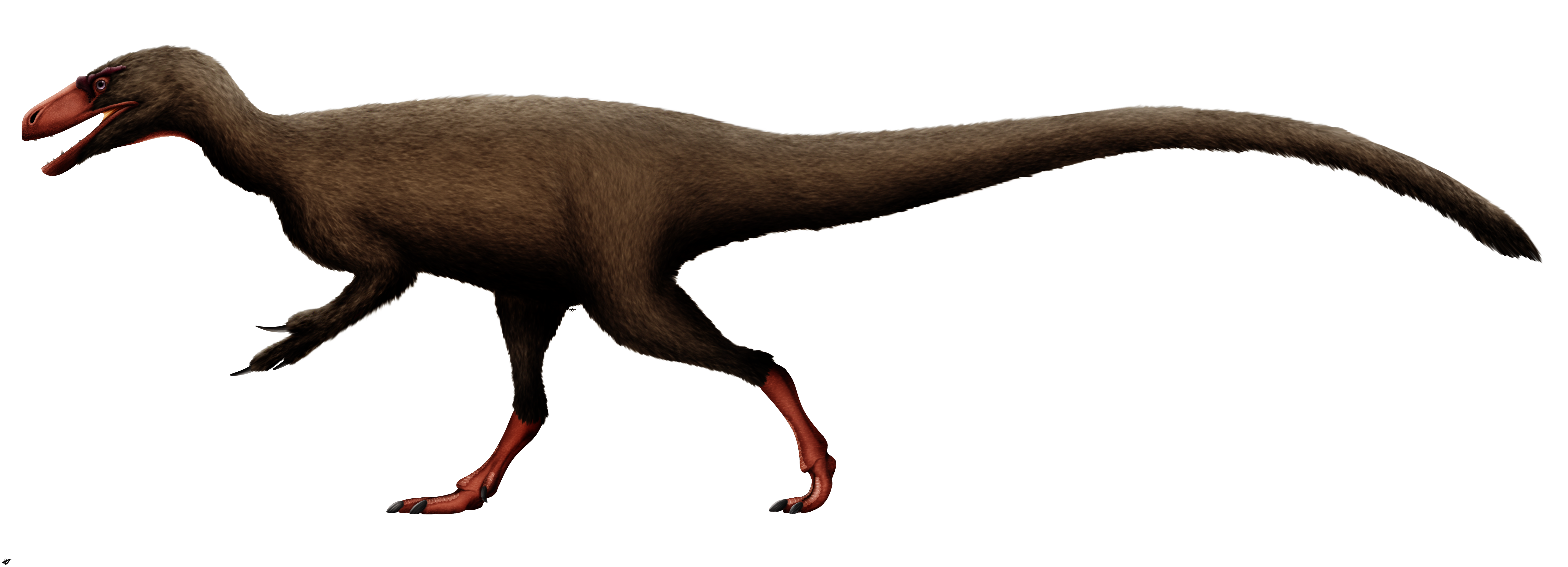 Artistic life restoration of Tanycolagreus. (This may represent a sub-adult)